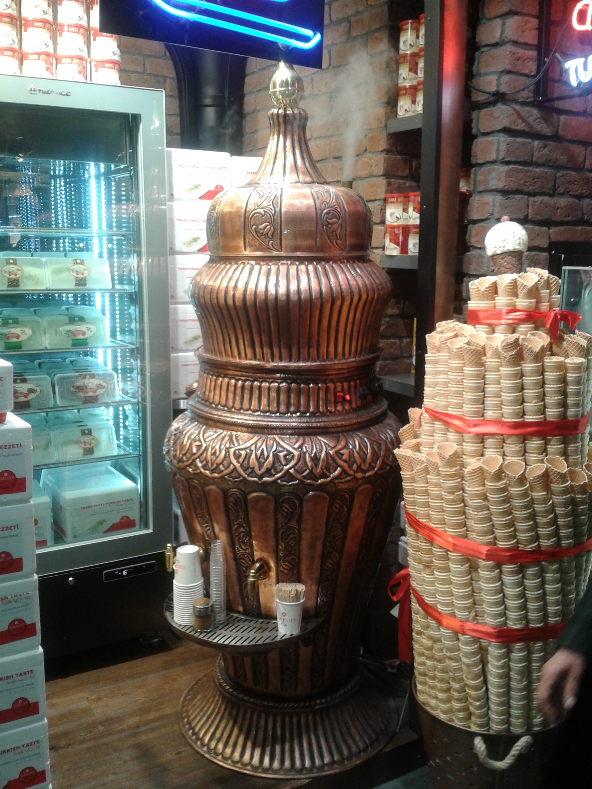 "Salep güğümü" (copper container of/with salep) in Istanbul Atatürk Airport, Turkey.